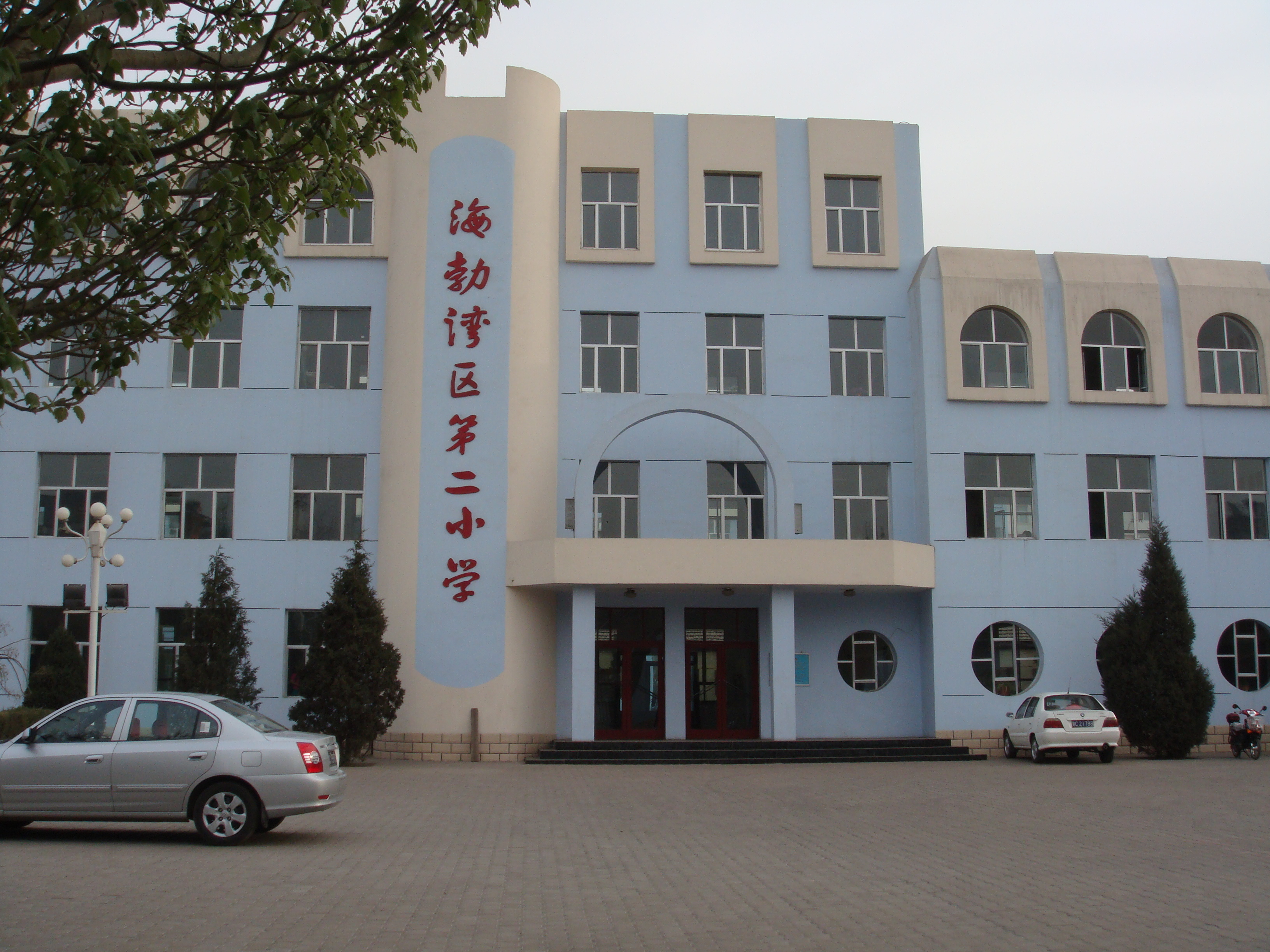 NO.2 Elementary School of Haibowan District